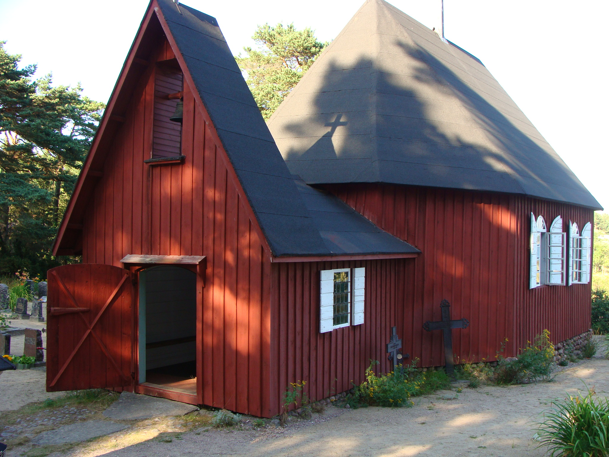 Entrance of the church in Nötö island in the Archipelago Sea in Finland.